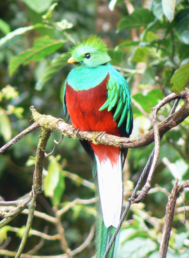 Resplendent Quetzal (Male)